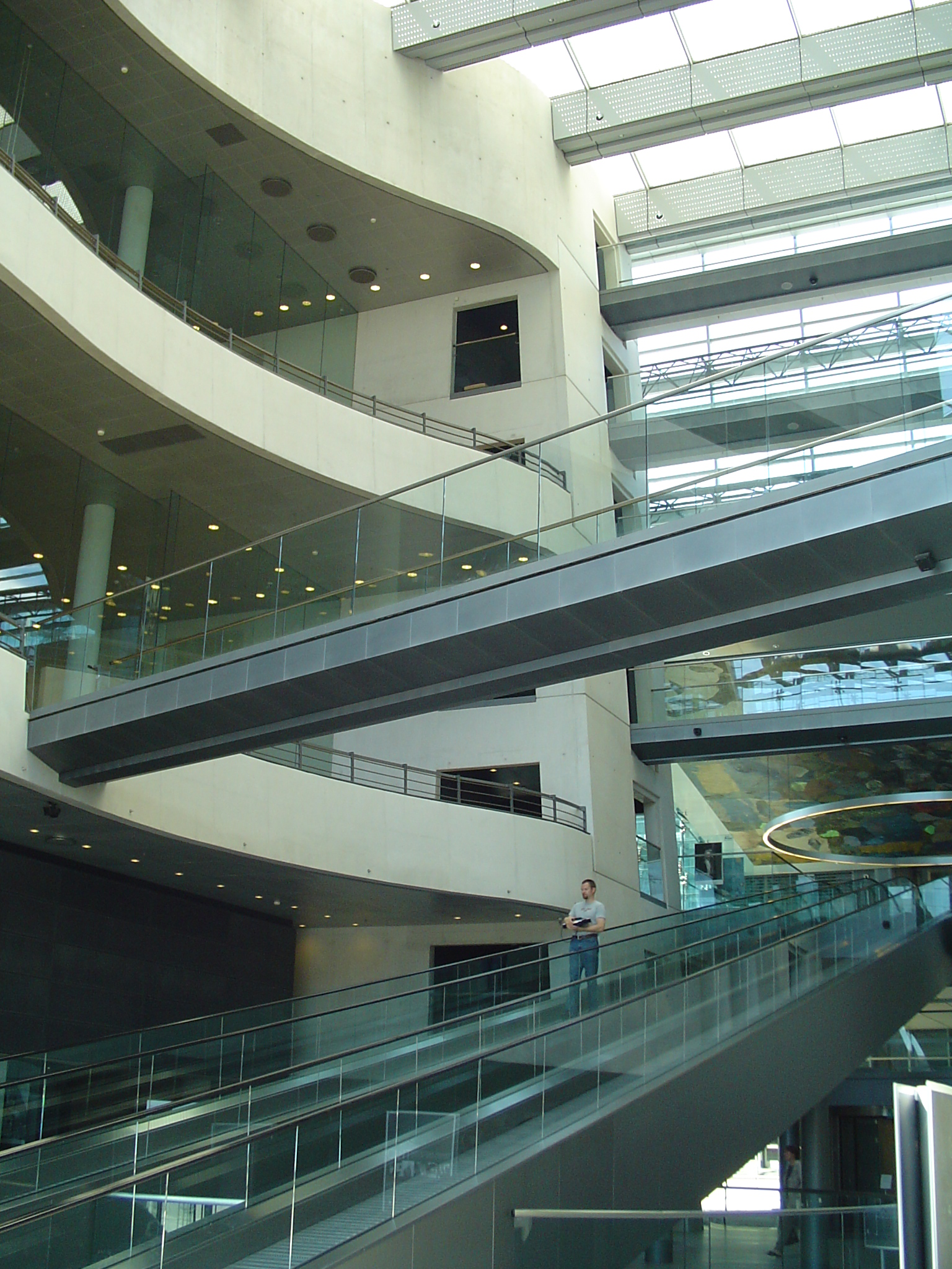 The Danish Royal Library. Taken by user:Thue in the sommer of 2005.